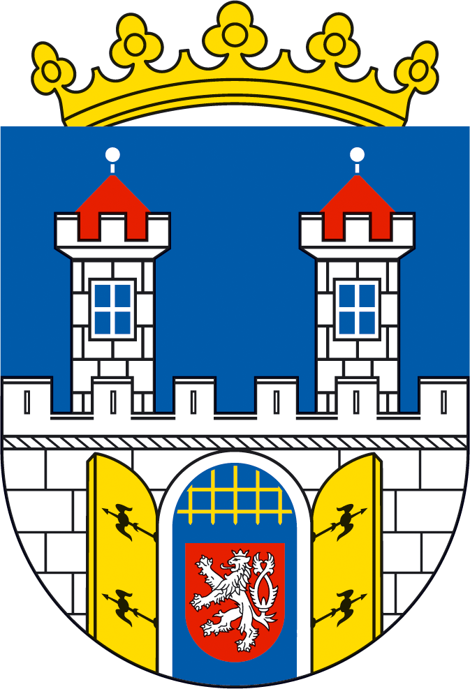 Coat of arms of Chomutov town, Czech Republic